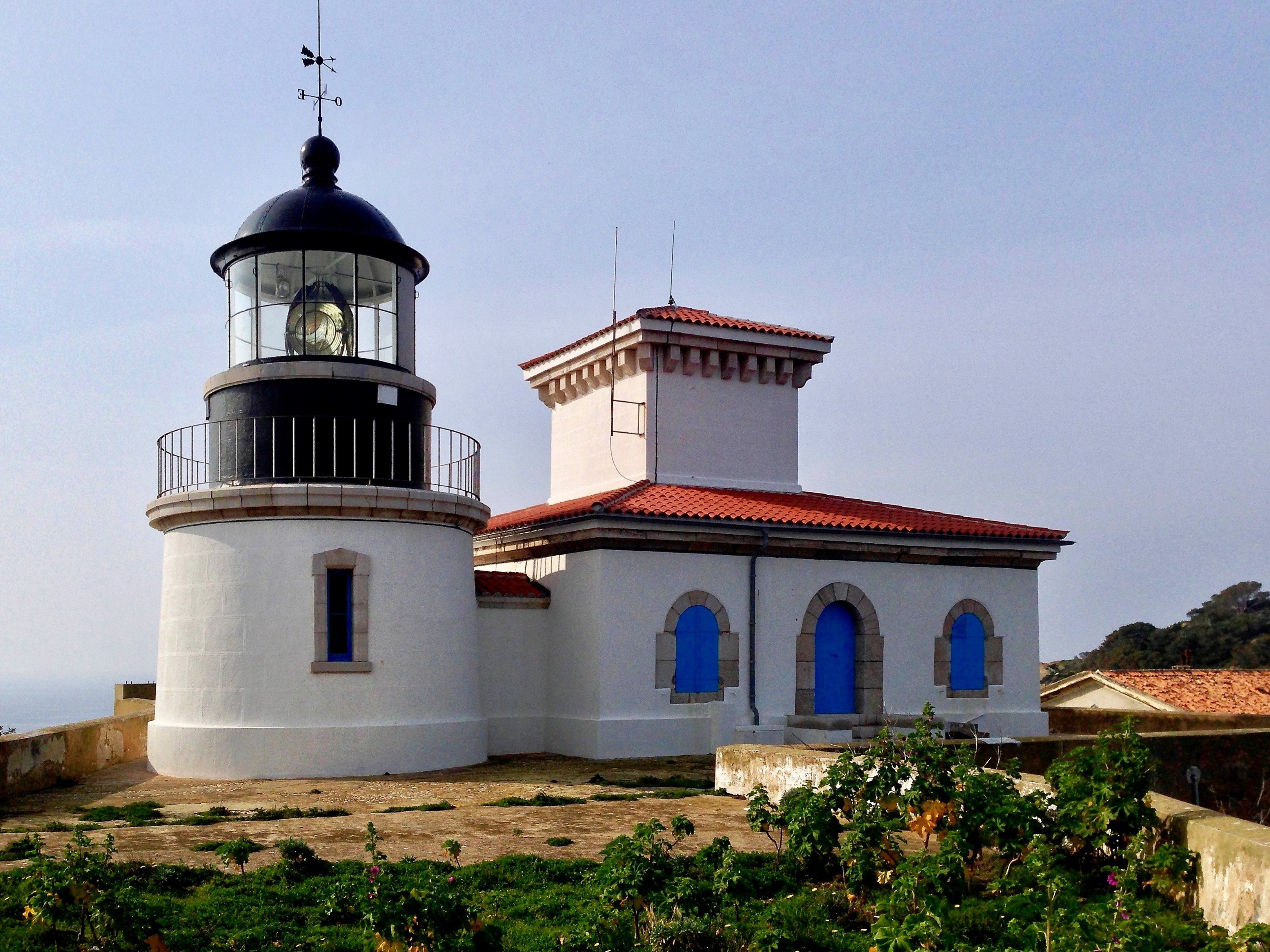 Titan’s lighthouse.